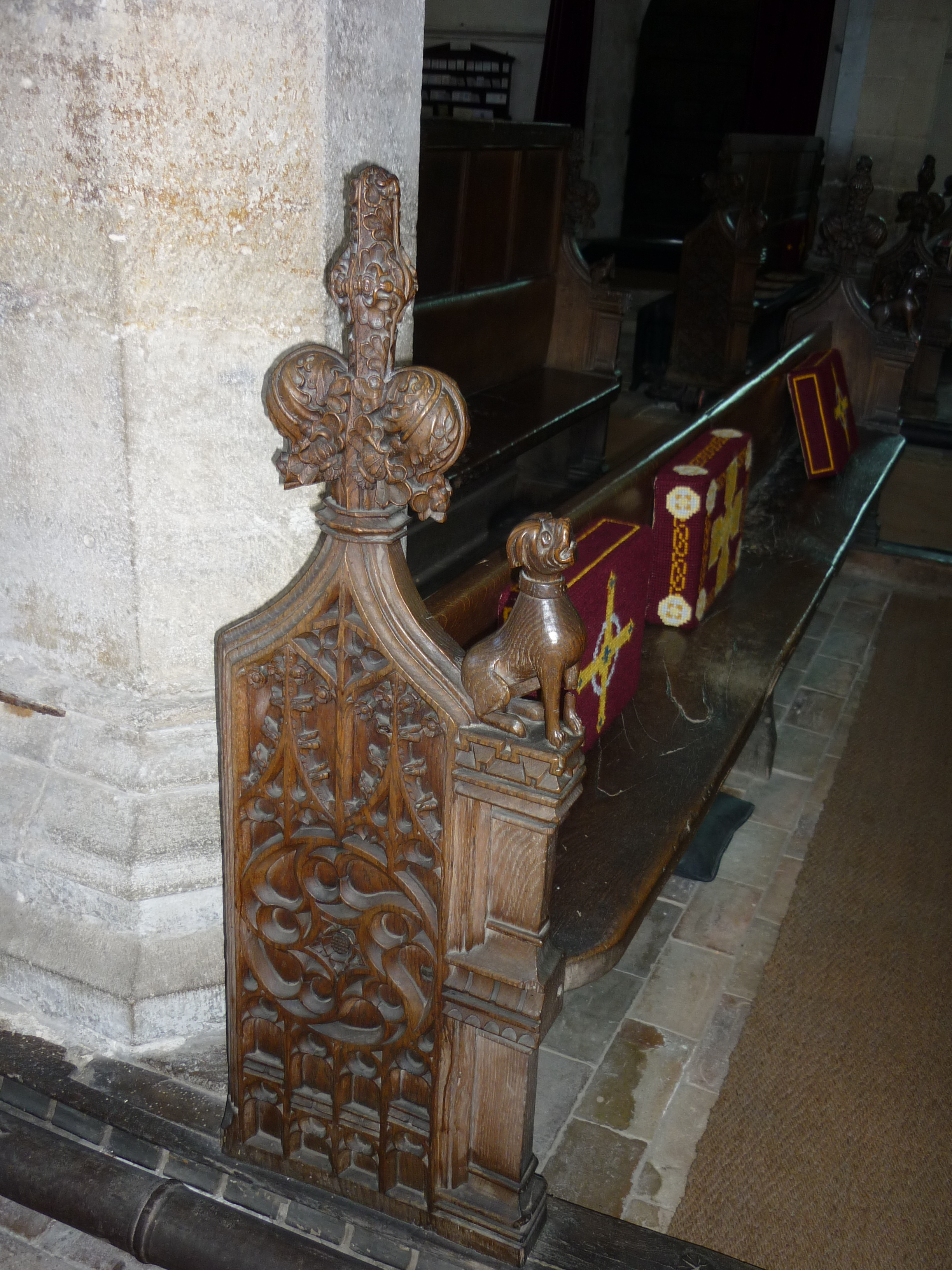 Dennington, St Mary, poppyhead